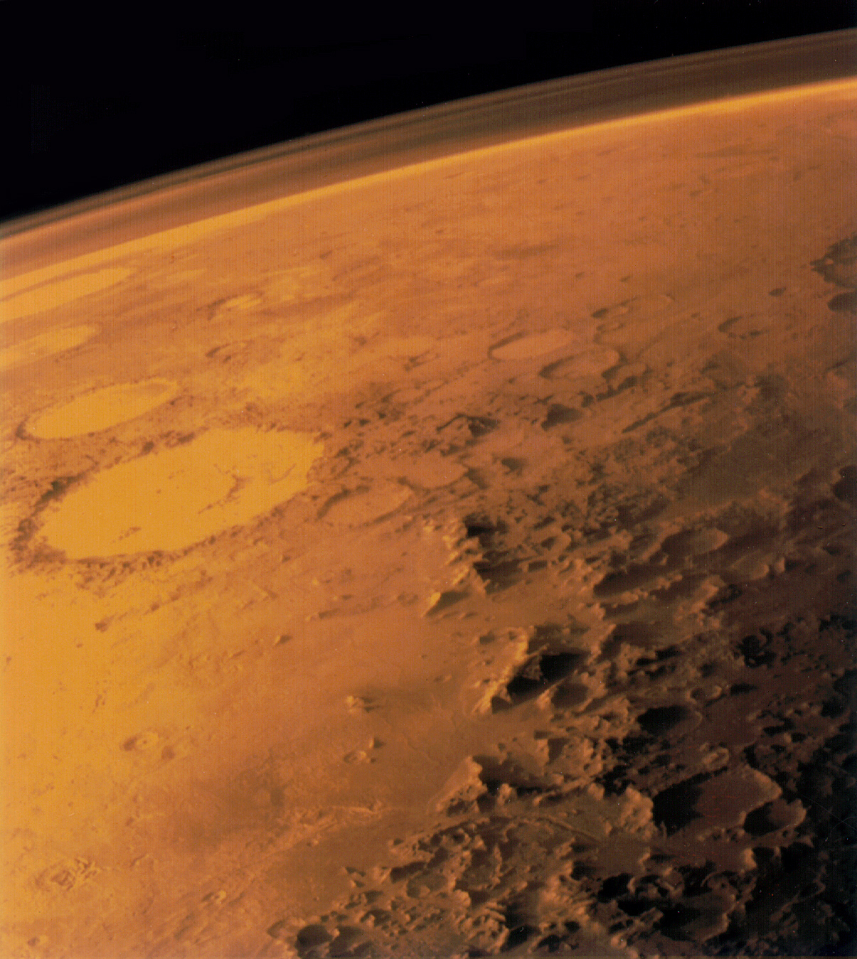 This Viking 1 orbiter image shows the thin atmosphere of Mars. The mountains of the southern Argyre Basin is visible, with Galle crater left of center. Viking image number is 040A63.